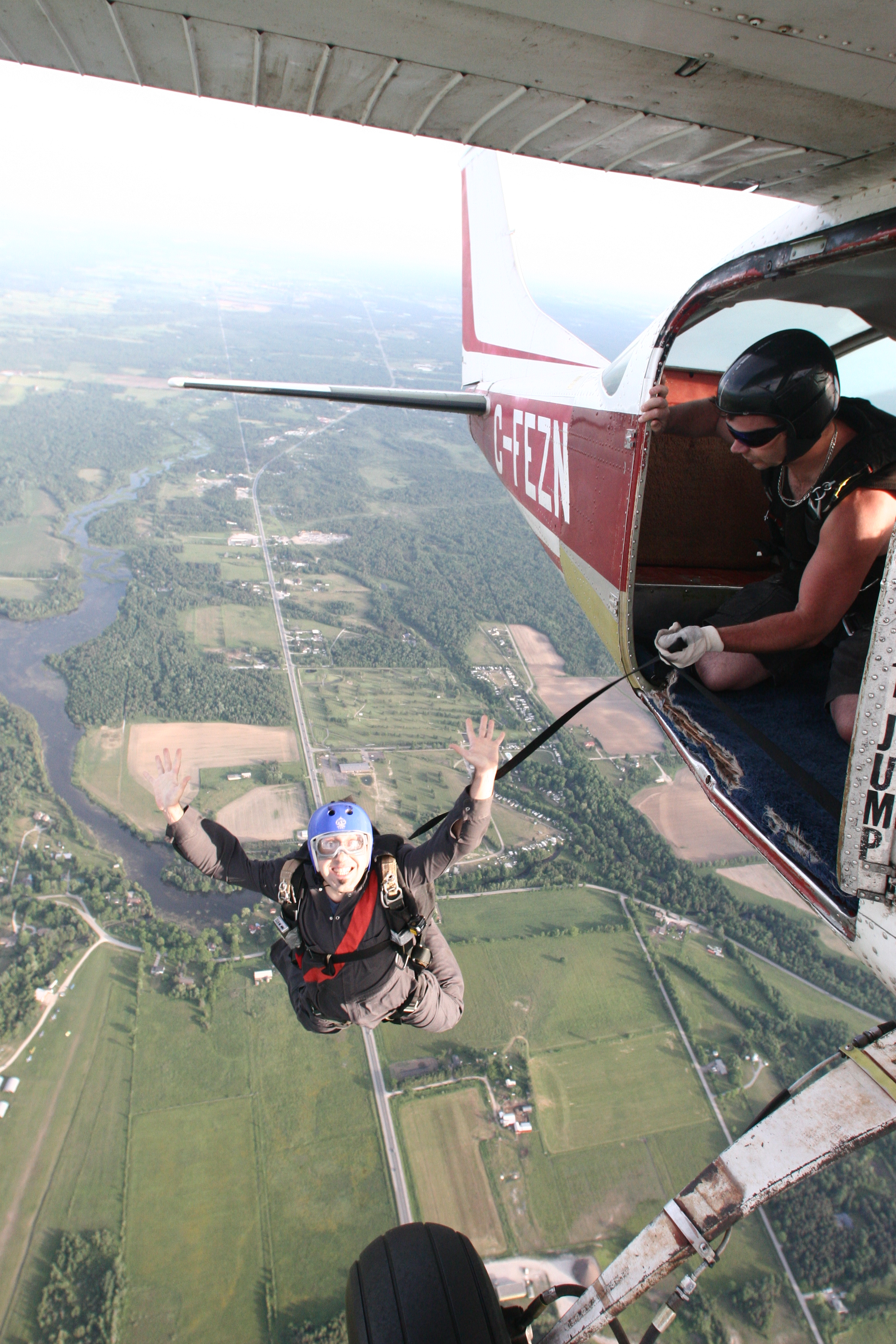 Skydiver just after exiting aircraft with their static line still attachedSkydiving: Falling...